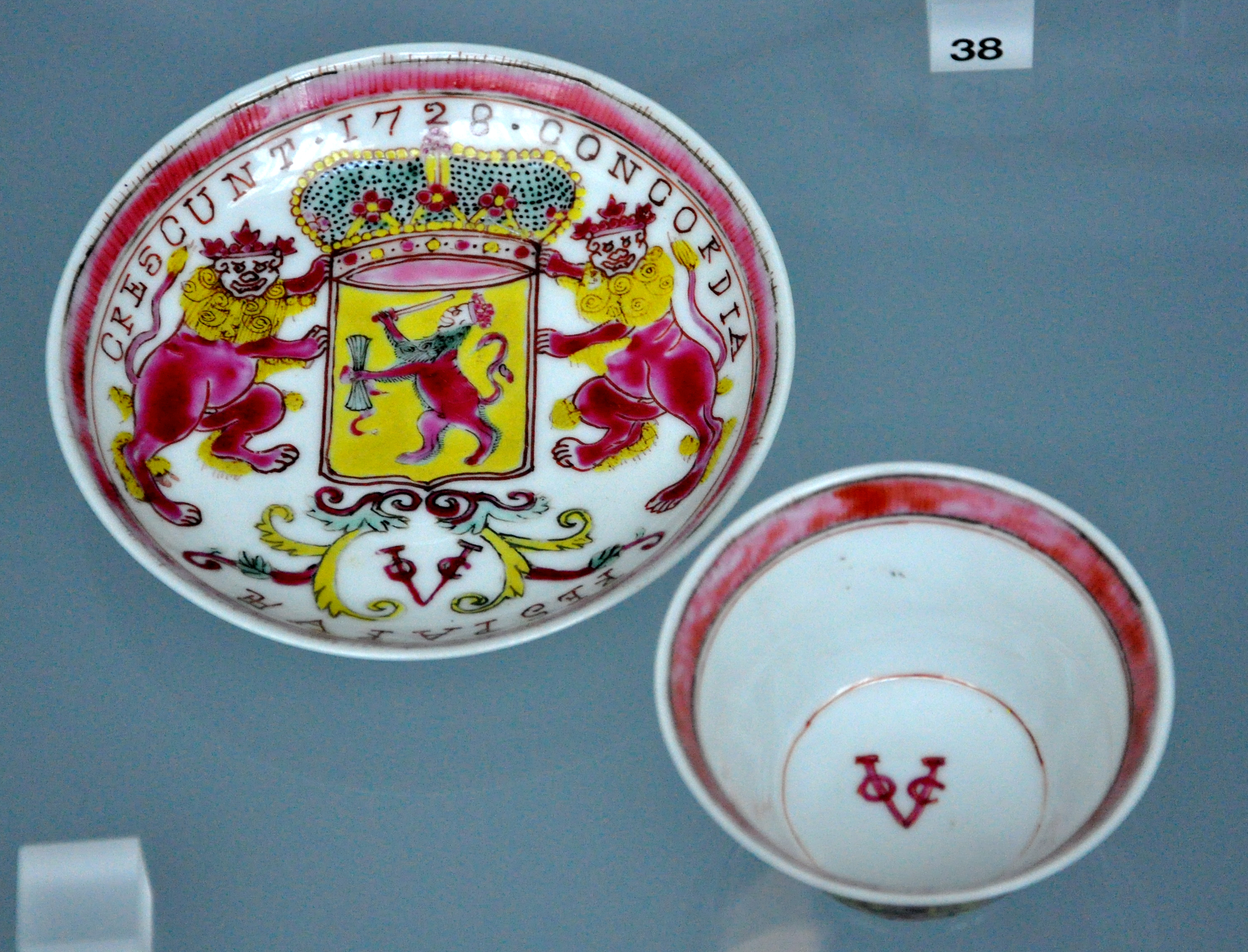 Cup and saucer, made in Jingdezhen (China), decorated in Guangdong, ca. 1728. The design on this cup and saucer copies the reverse of a Dutch silver ducatoon, or 'silvery knight', struck for the V.O.C. in 1728. Victoria and Albert Museum, London, museum no. 645&A-1907 (Link)